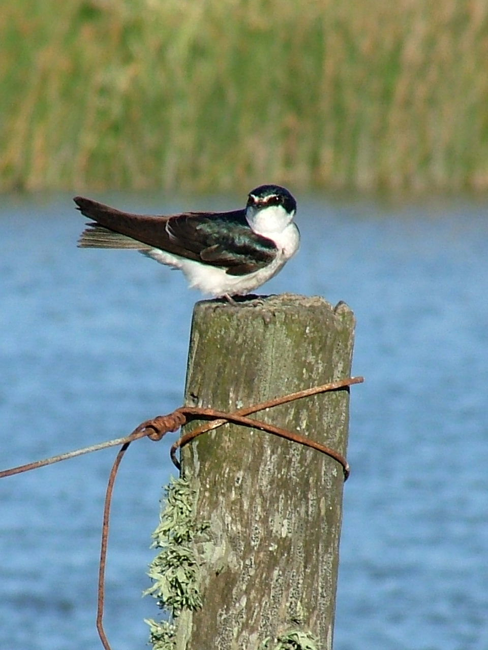 White-rumped Swallow (Tachycineta leucorrhoa) at General Lavalle, Buenos Aires, Argentina